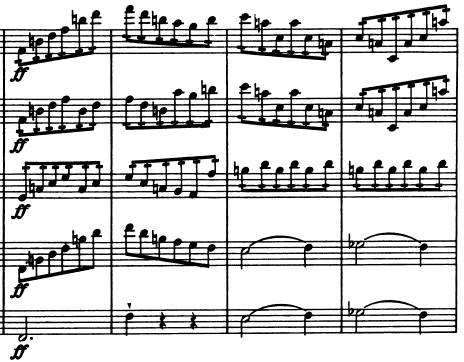 J. Brahms, Schicksalslied, Opus 54. Orchestra Excerpt 4